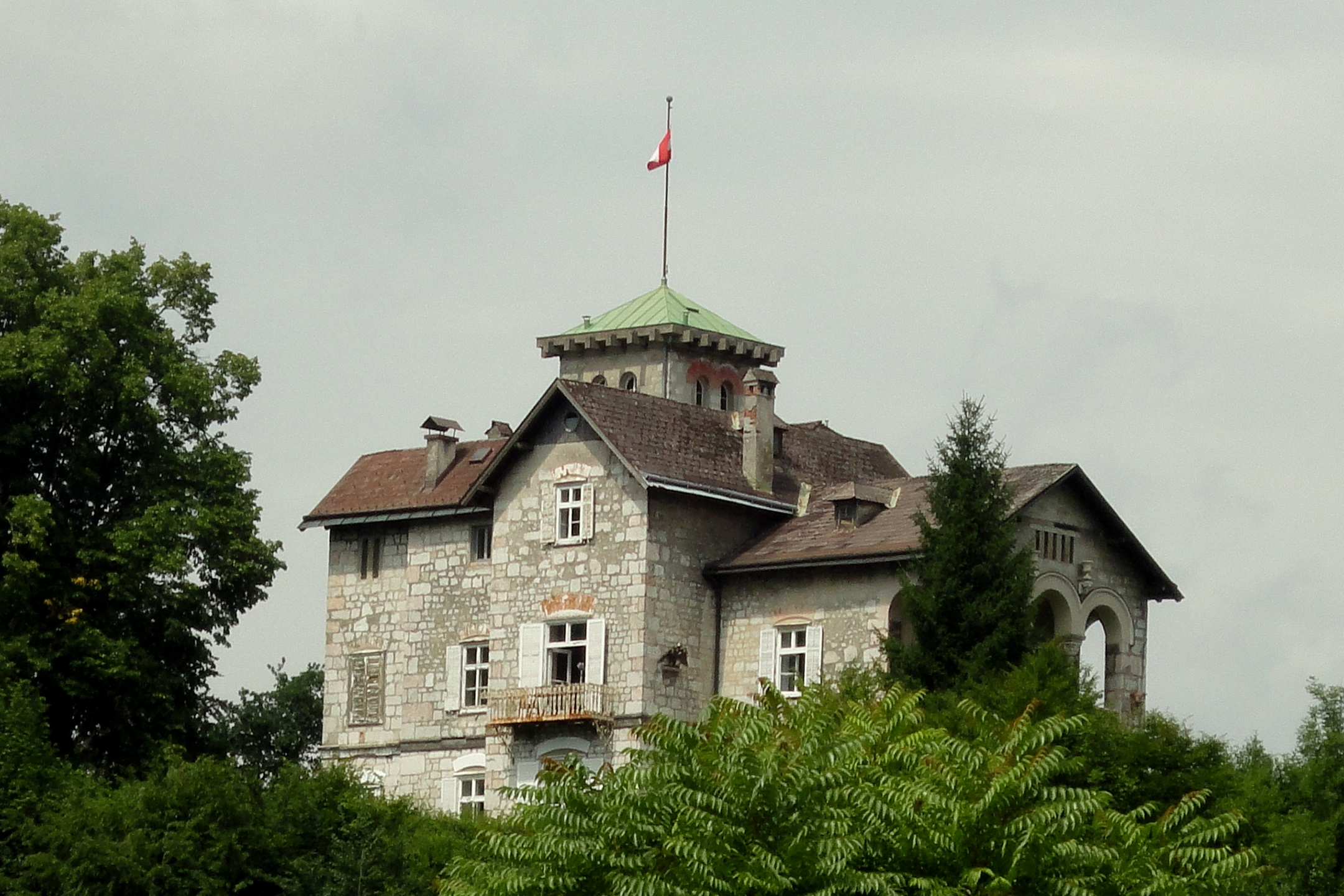 The so called 'Russenvilla' in Traunkirchen, Upper Austria